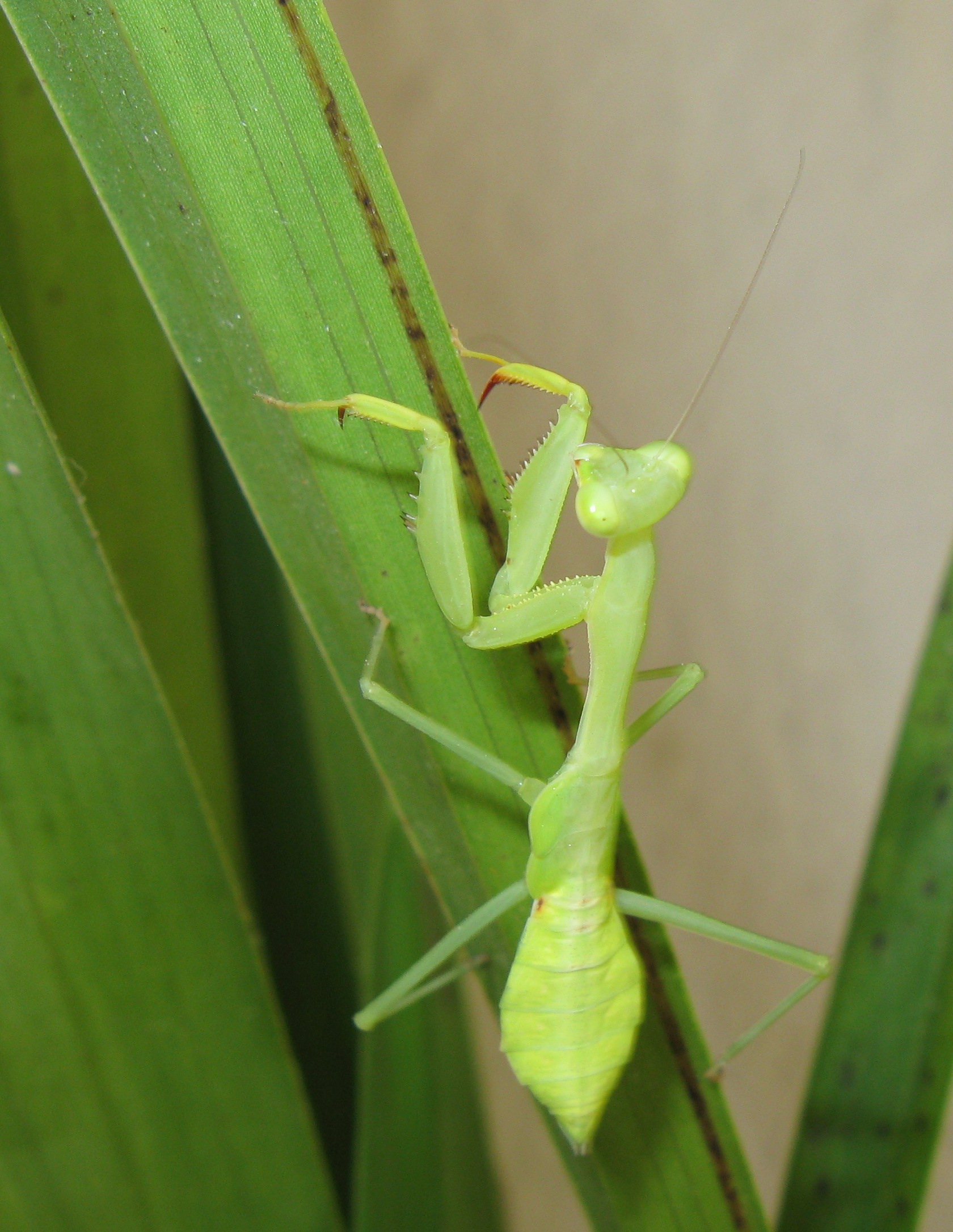 Female Immature Sphodromantis gastrica. This specimen probably is two moults away from maturity. Note the wing pads, which will cover the entire upper surface of the abdomen at maturity.